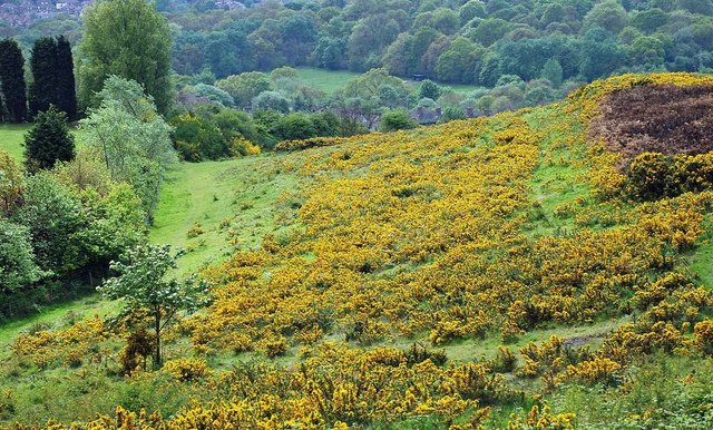 Netherton Hills Gorse in full bloom. View from St Andrews Church in the direction of Saltwells Wood.